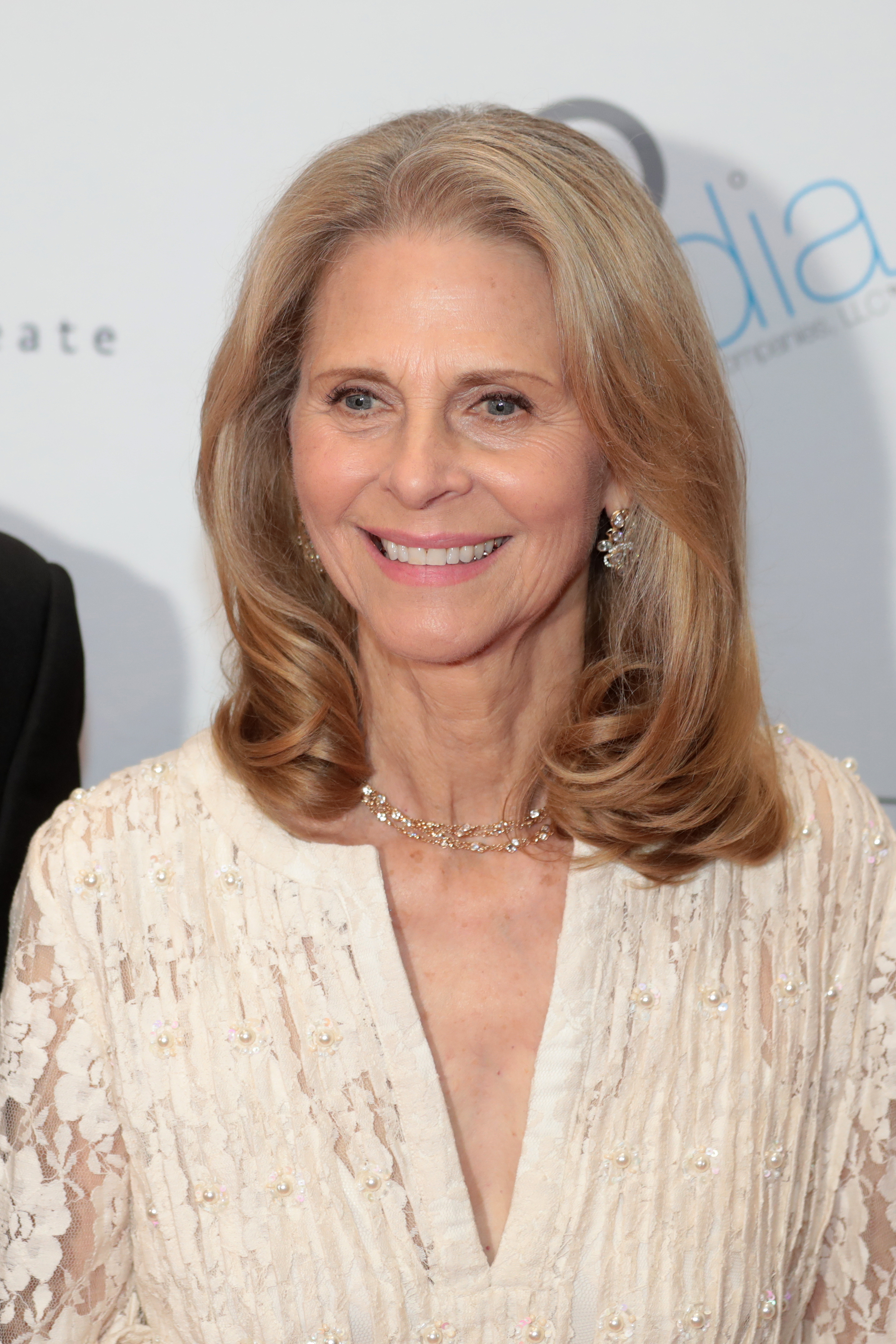 Lindsay Wagner on the red carpet at Celebrity Fight Night XXV at the JW Marriott Desert Ridge Resort & Spa in Phoenix, Arizona.